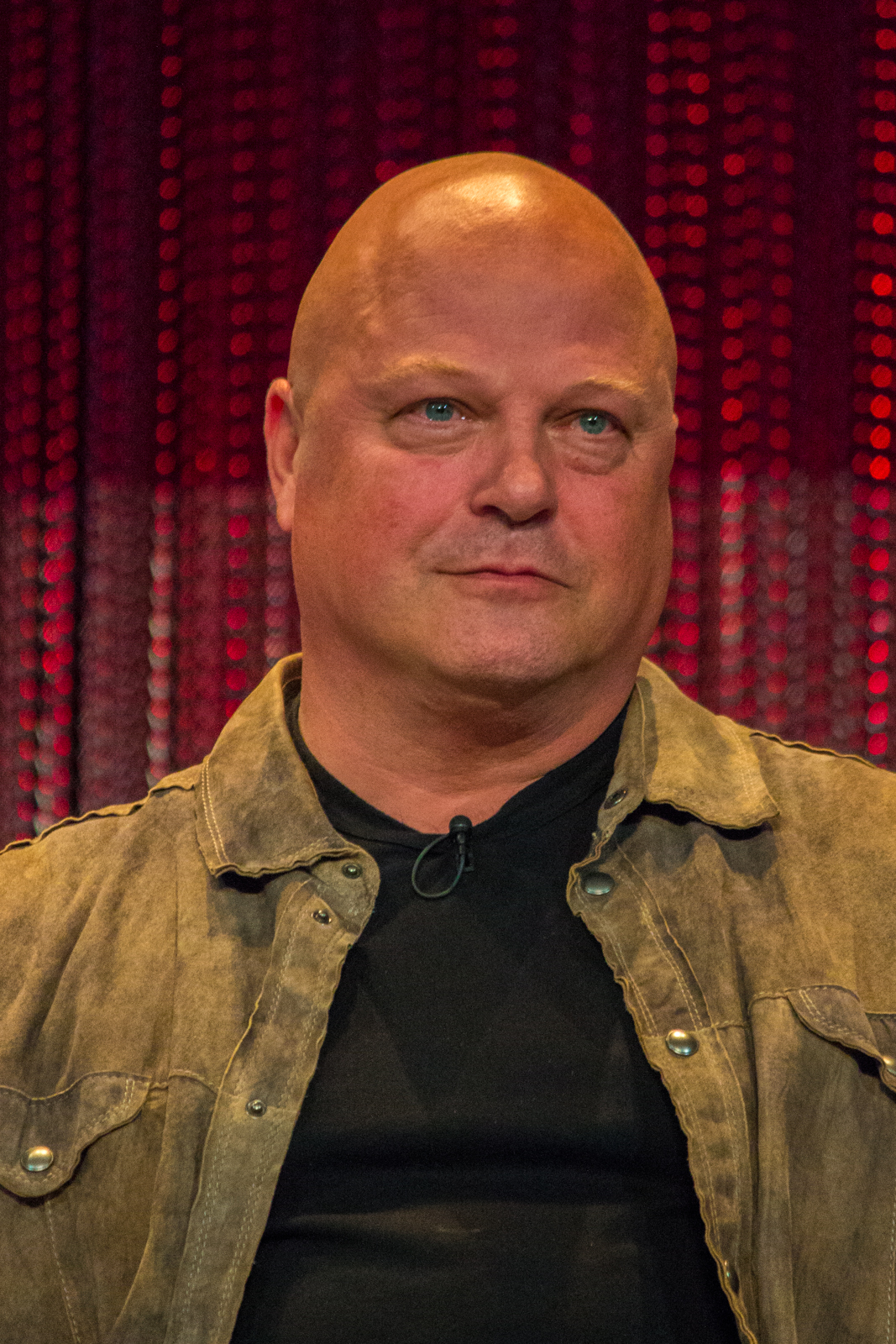 Michael Chiklis at PaleyFest 2014 for the TV show "American Horror Story: Coven"